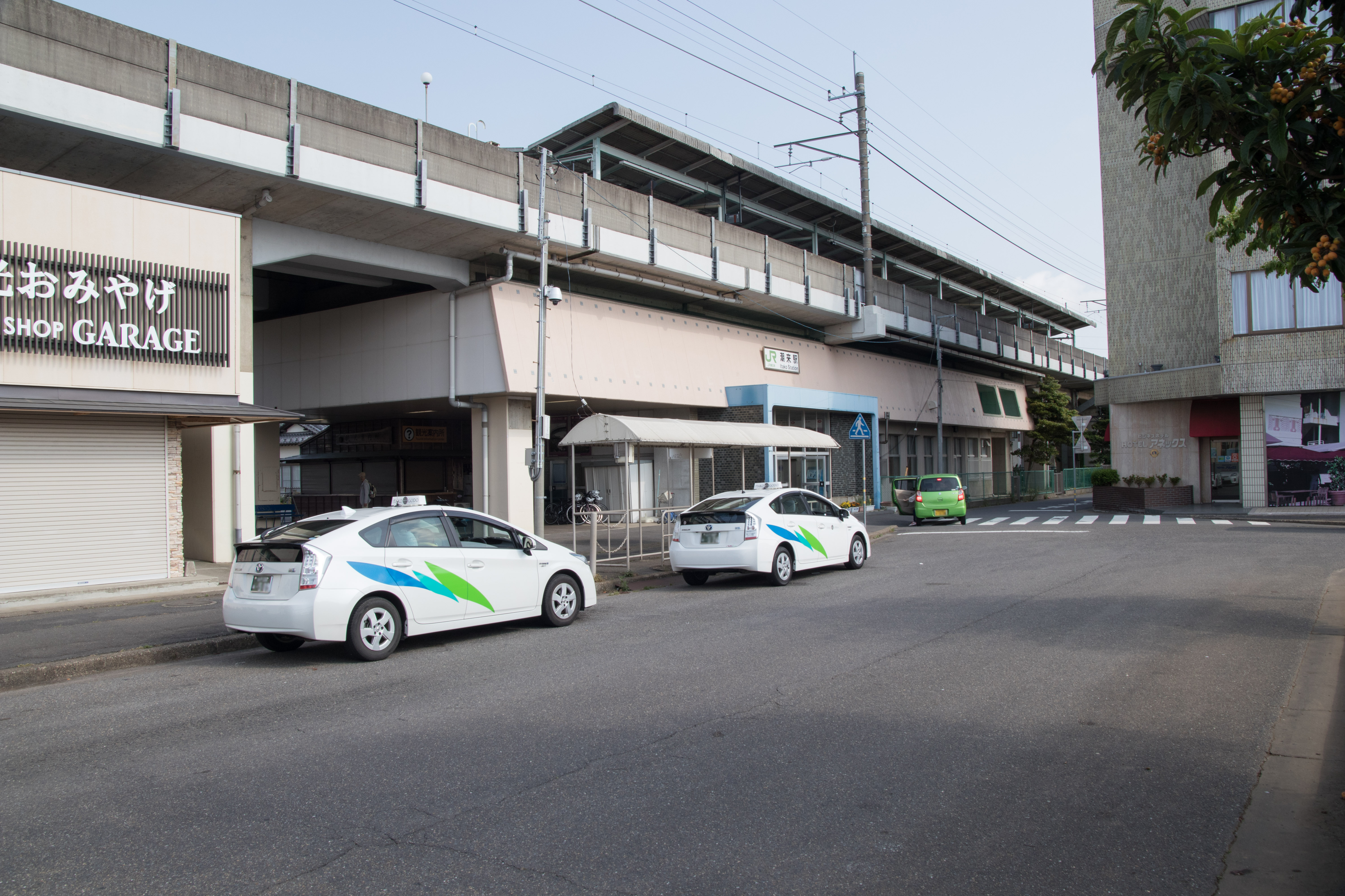 Itako Station in Itako City, Ibaraki Prefecture, Japan Canon EOS 80D + Sigma 17-70mm F2.8-4 DC Macro OS HSM